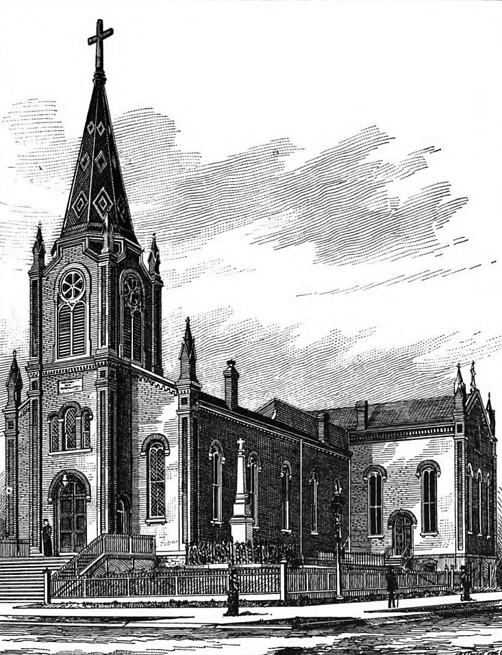 St. Margaret's (St. Marguerite's), the first Catholic Cathedral in Davenport, Iowa. A parish church from 1856-1891 and a cathedral church from 1881-1891. It was replaced by Sacred Heart Cathedral on the same block.